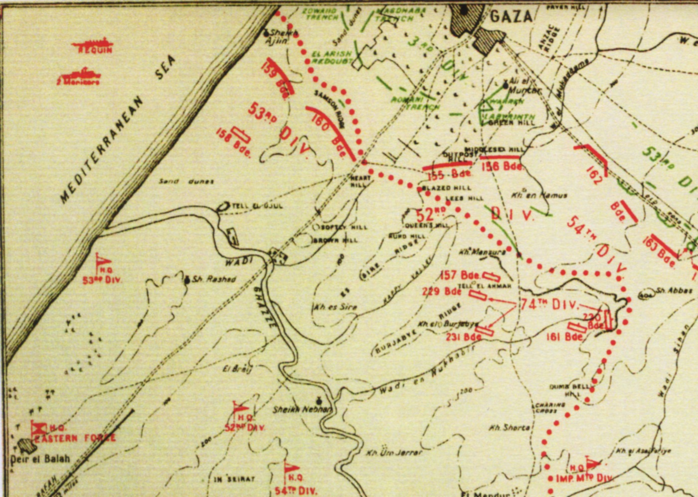 Falls Sketch Map of the Second Battle of Gaza western section of the battlefield